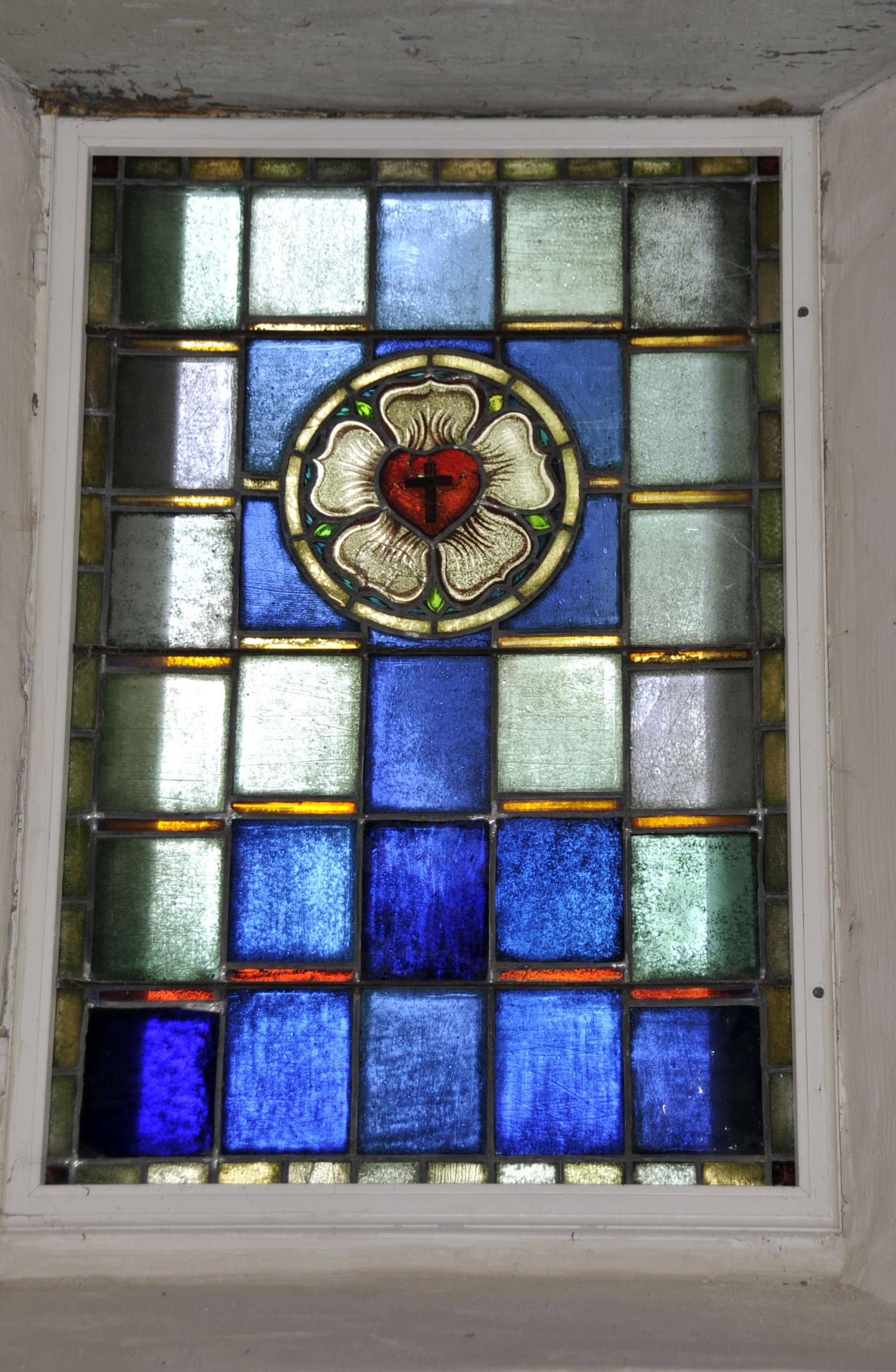 Stained glass window with Lutheran rose